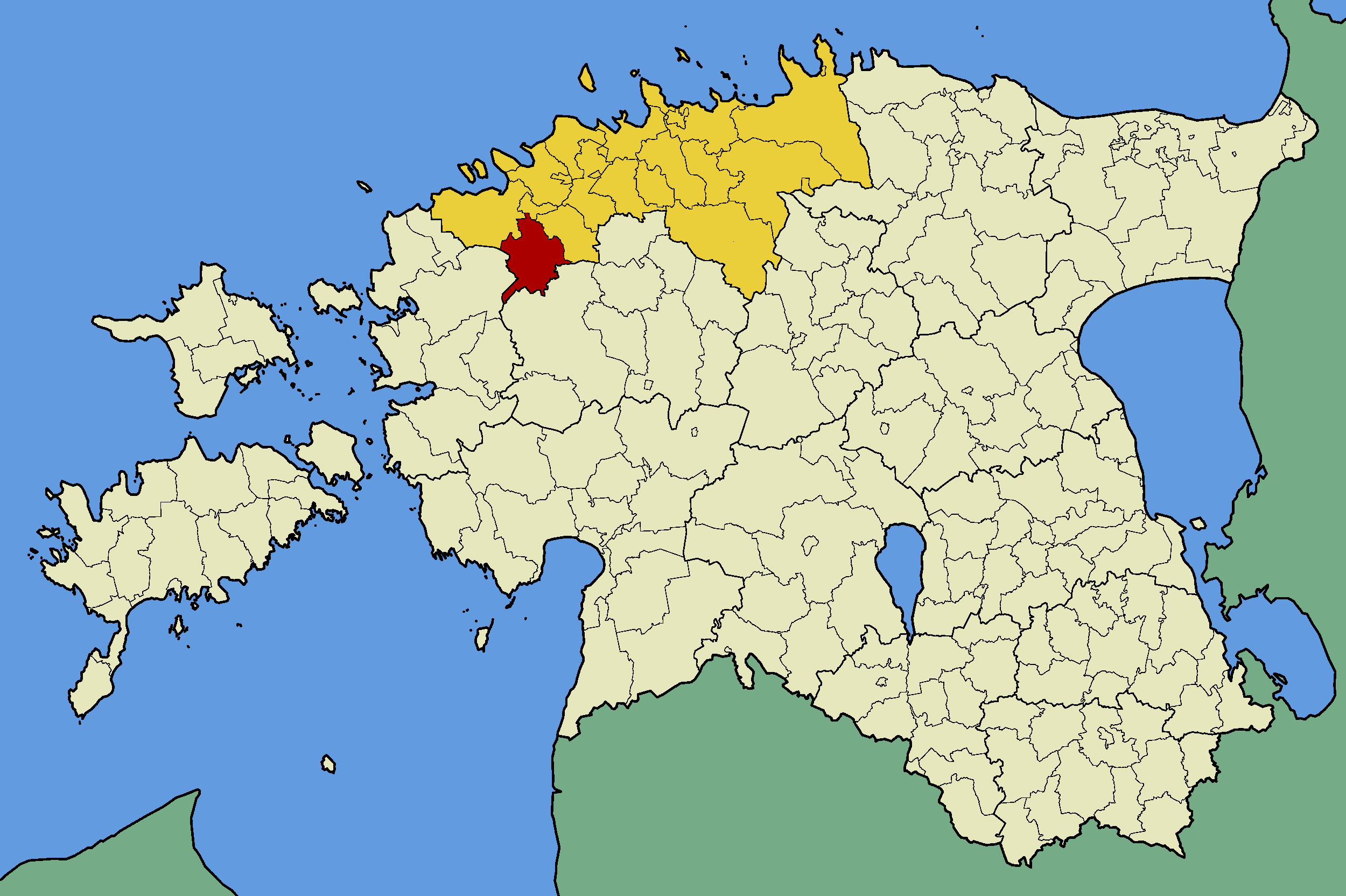 Map of Estonia with borders of municipalities (parishes). Harju county and Nissi municipality (parish) emphasized.